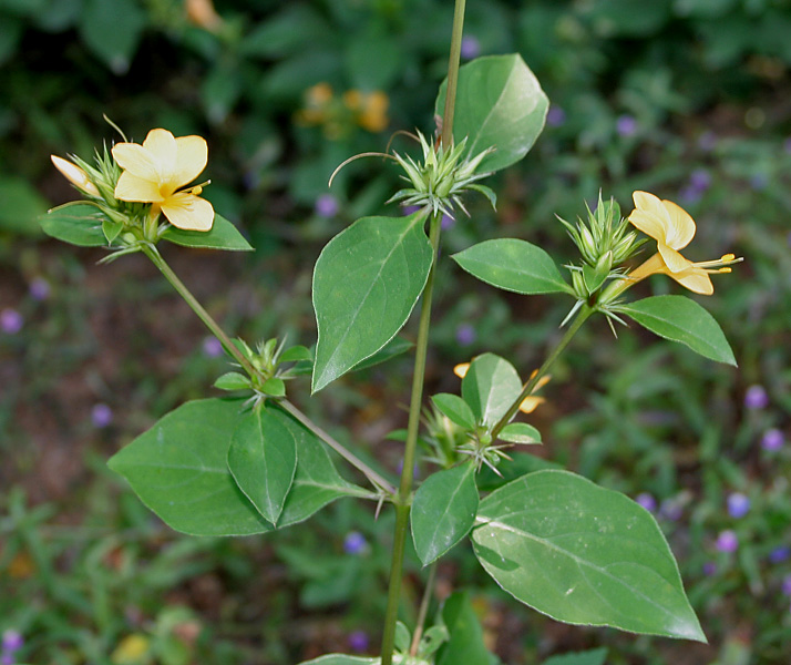 Porcupine flower, Espinosa amarilla or Picanier jaune Barleria prionitis in Hyderabad , India.